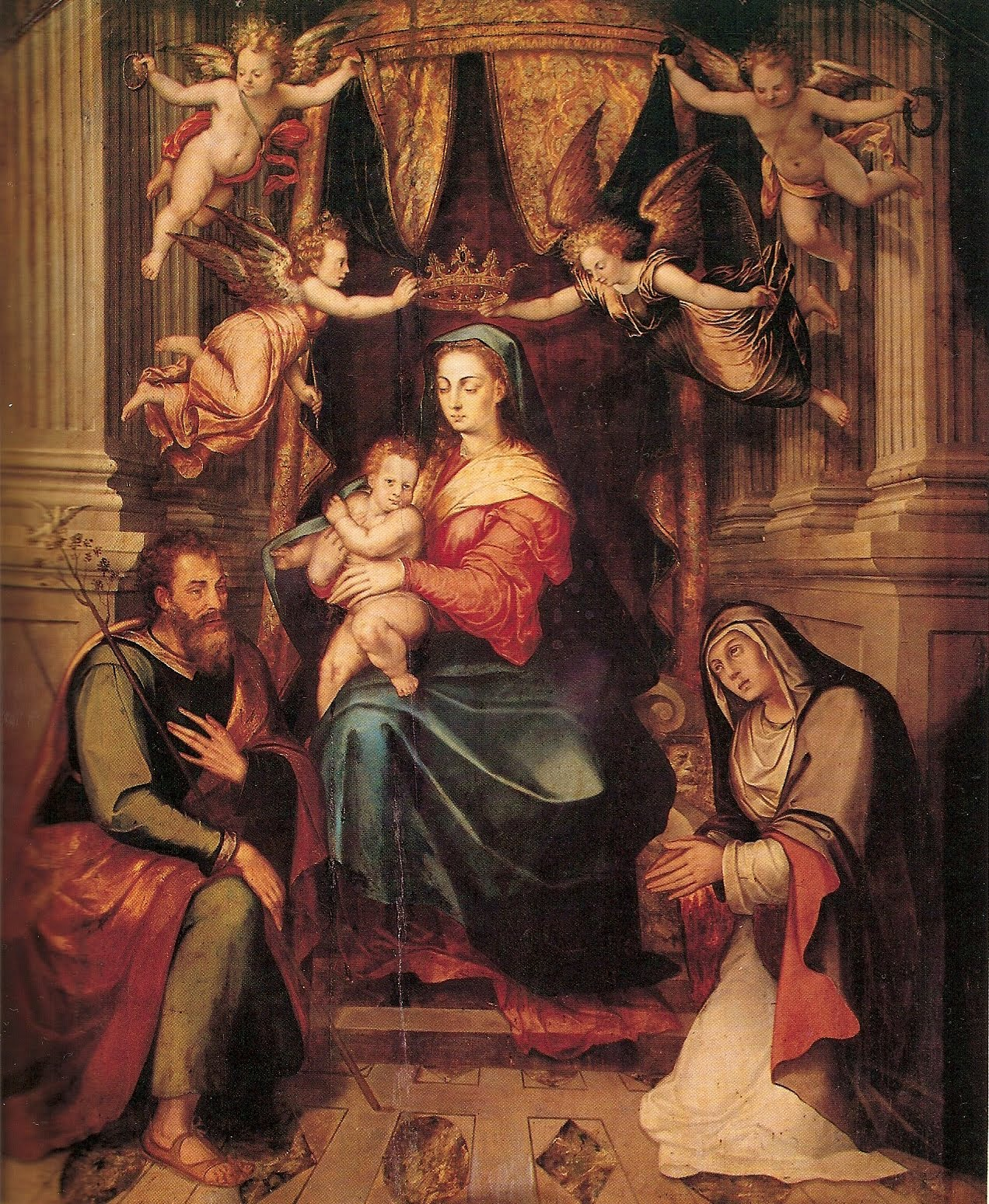 Virgin with child, Anna and Joseph, more commonly known as The Virgin of Atonement, by Simon Pereyns (1568). Used to form the centerpiece of the Altar of Forgiveness at the Mexico City Metropolitan Cathedral. Destroyed by fire on 17 January 1967.